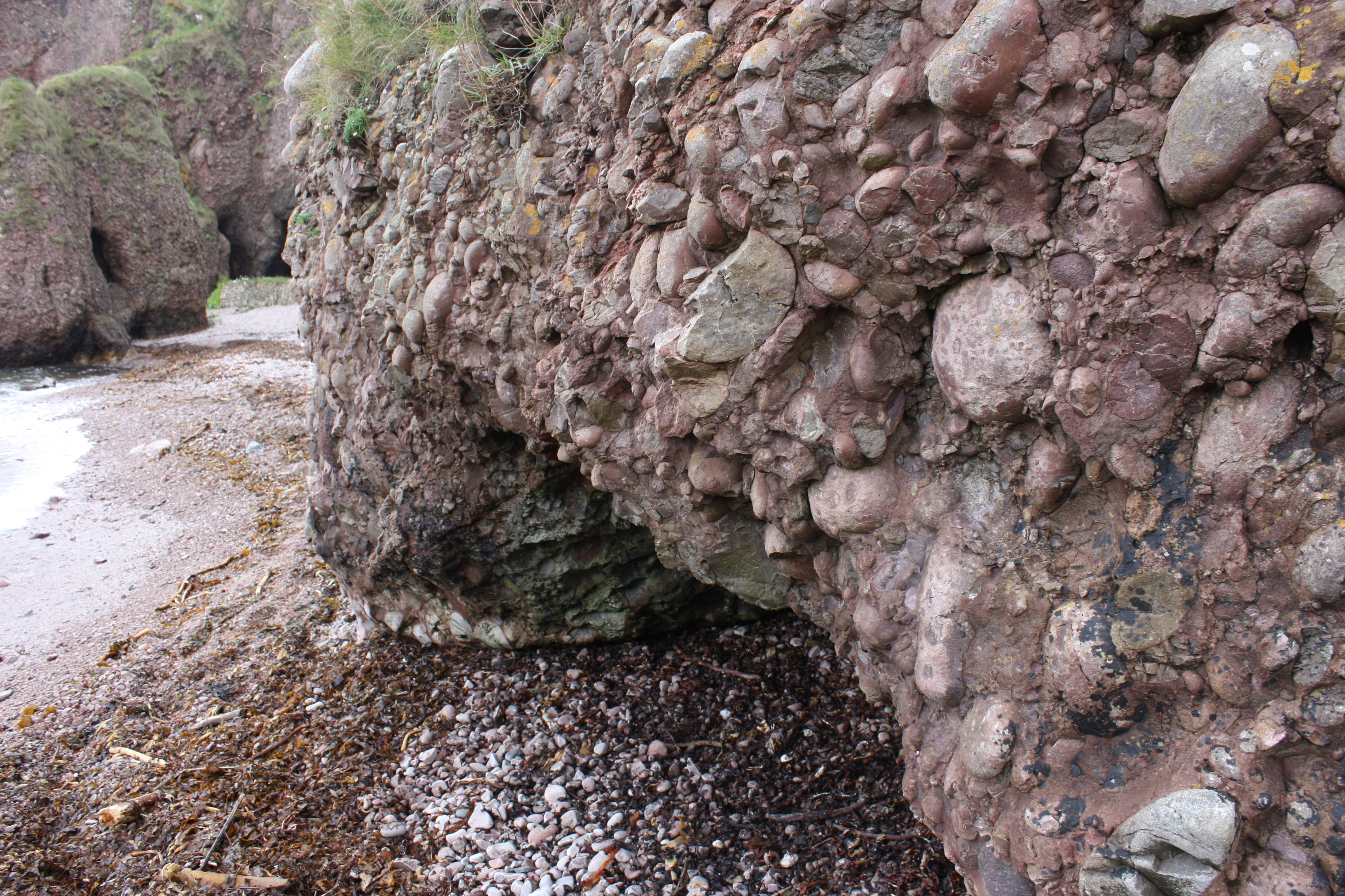 Cushendun Caves, Cushendun, County Antrim, Northern Ireland, September 2010